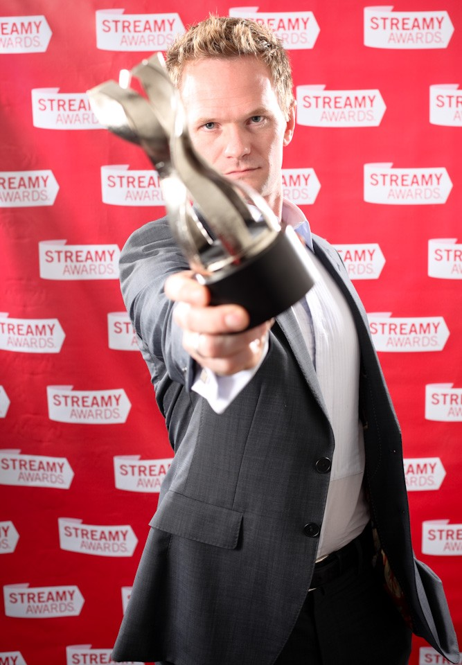 Neil Patrick Harris at the 1st Streamy Awards in 2009.